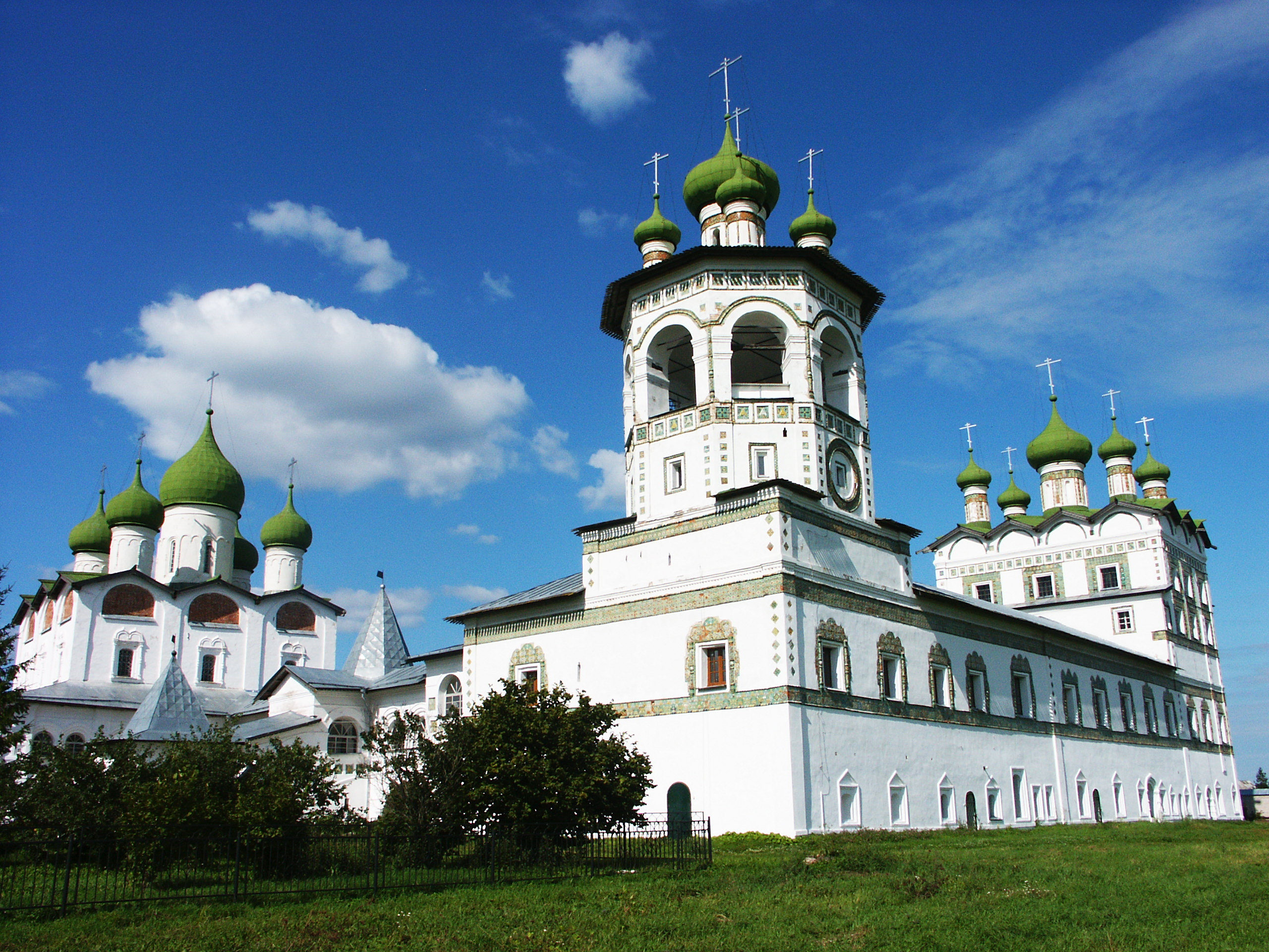 Vyazhistchkiy closter (near Novgorod). End of the XIVth century